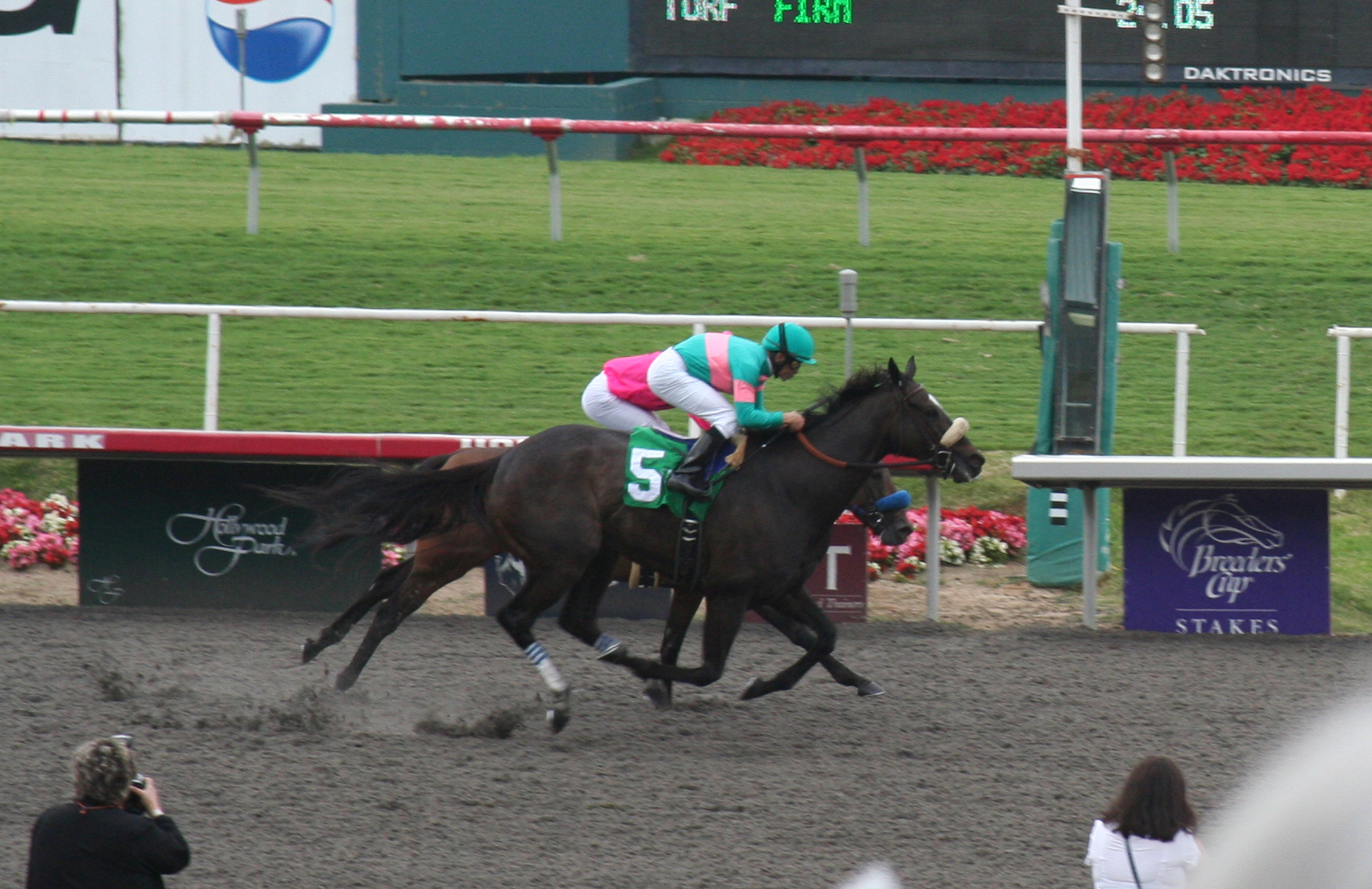 The frame before this was an empty shot of the finish line. I knew I had to get the shot, but I was shaking and Josh was yelling next to me "I don't think she's gonna get there!" then "HOLY SHIT!"